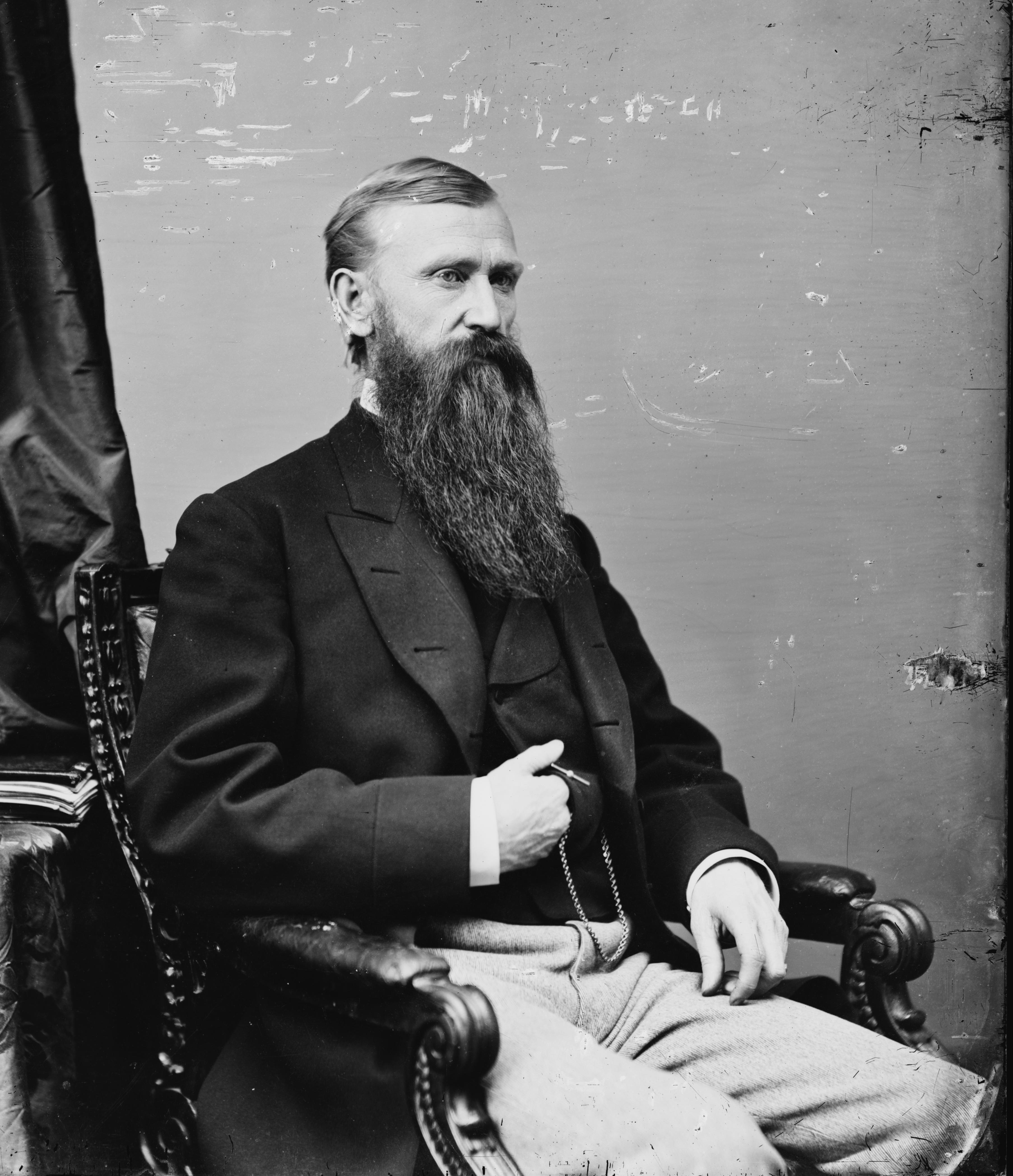 Norton P. Chipman. Library of Congress description: "Gen. N. B. Chipman, U.S.A."